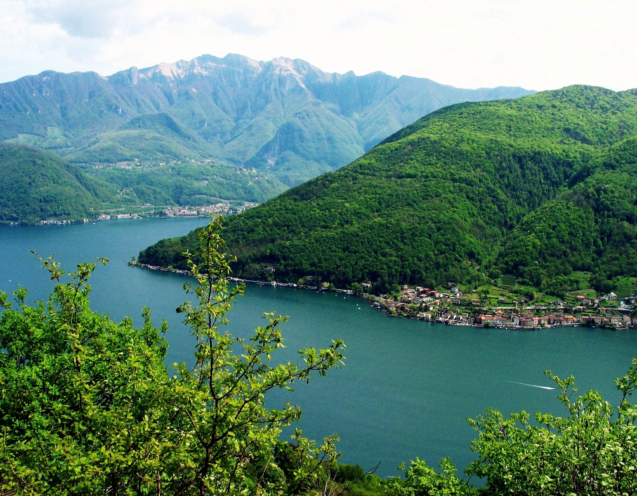 Lake Lugano seen from above Morcote (Ticino). In the middle: the village of Brusino Arsizio and the Monte San Giorgio. In the background: Monte Generoso.